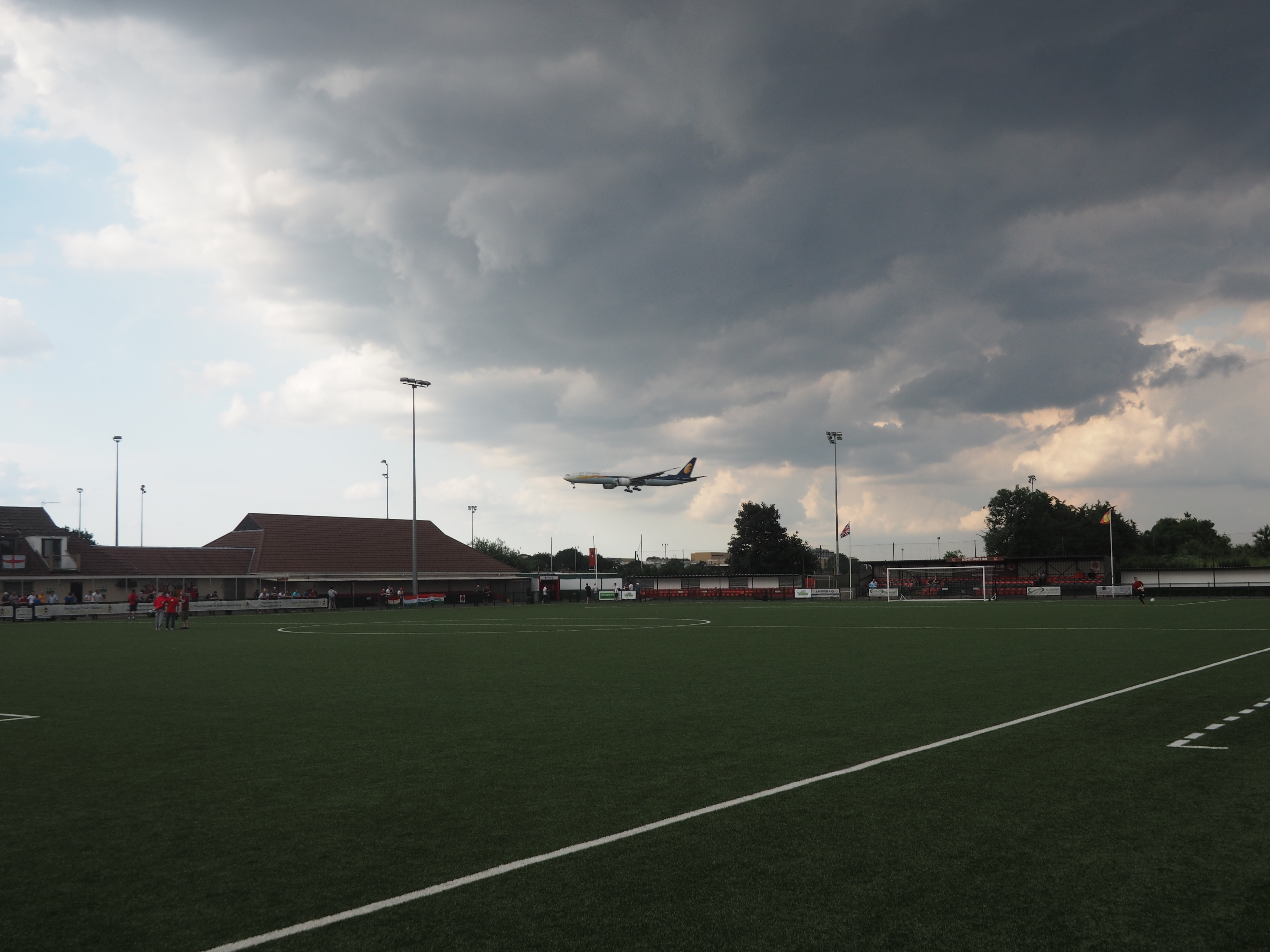 Conifa World Cup, Group C, Padania v Székely Land, Bedfont Sports Centre, London/England